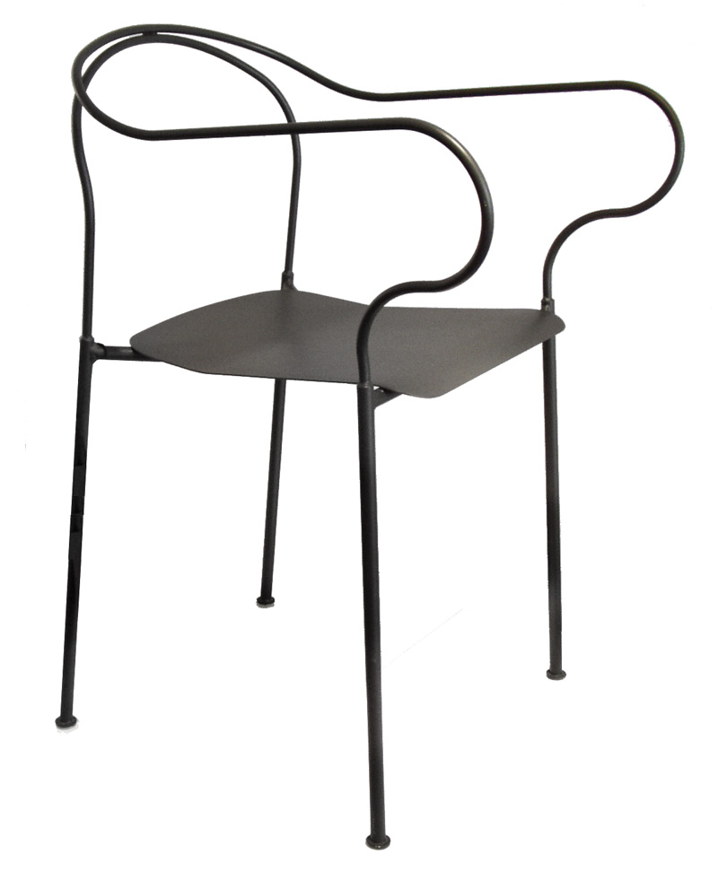 Stackable outdoor chair, Kyparn möbel av Johannes Norlander